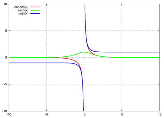 Hyperbolic cosecant, secant and cotangent.